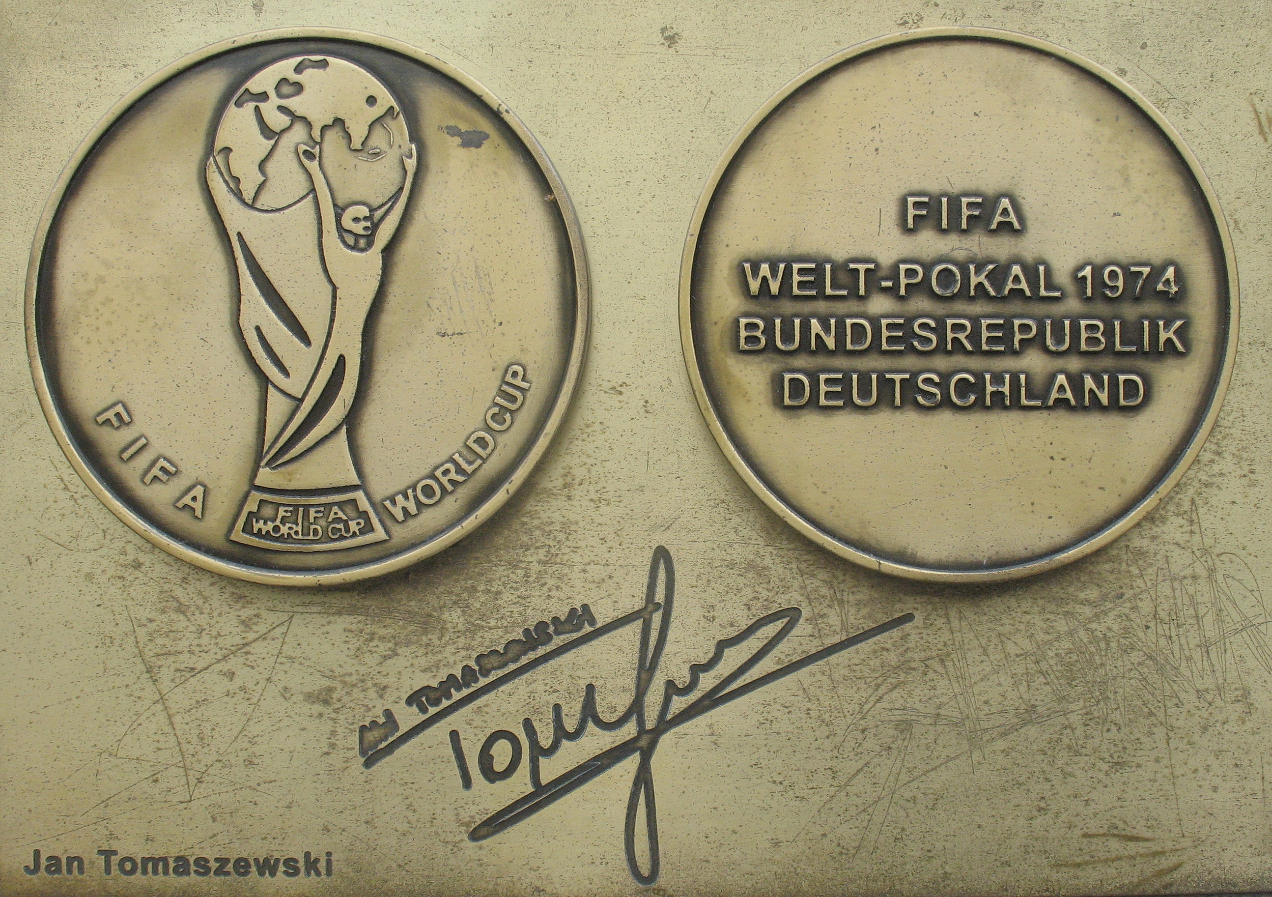 Jan Tomaszewski medal & autograph in Avenue of Sport Stars Dziwnów